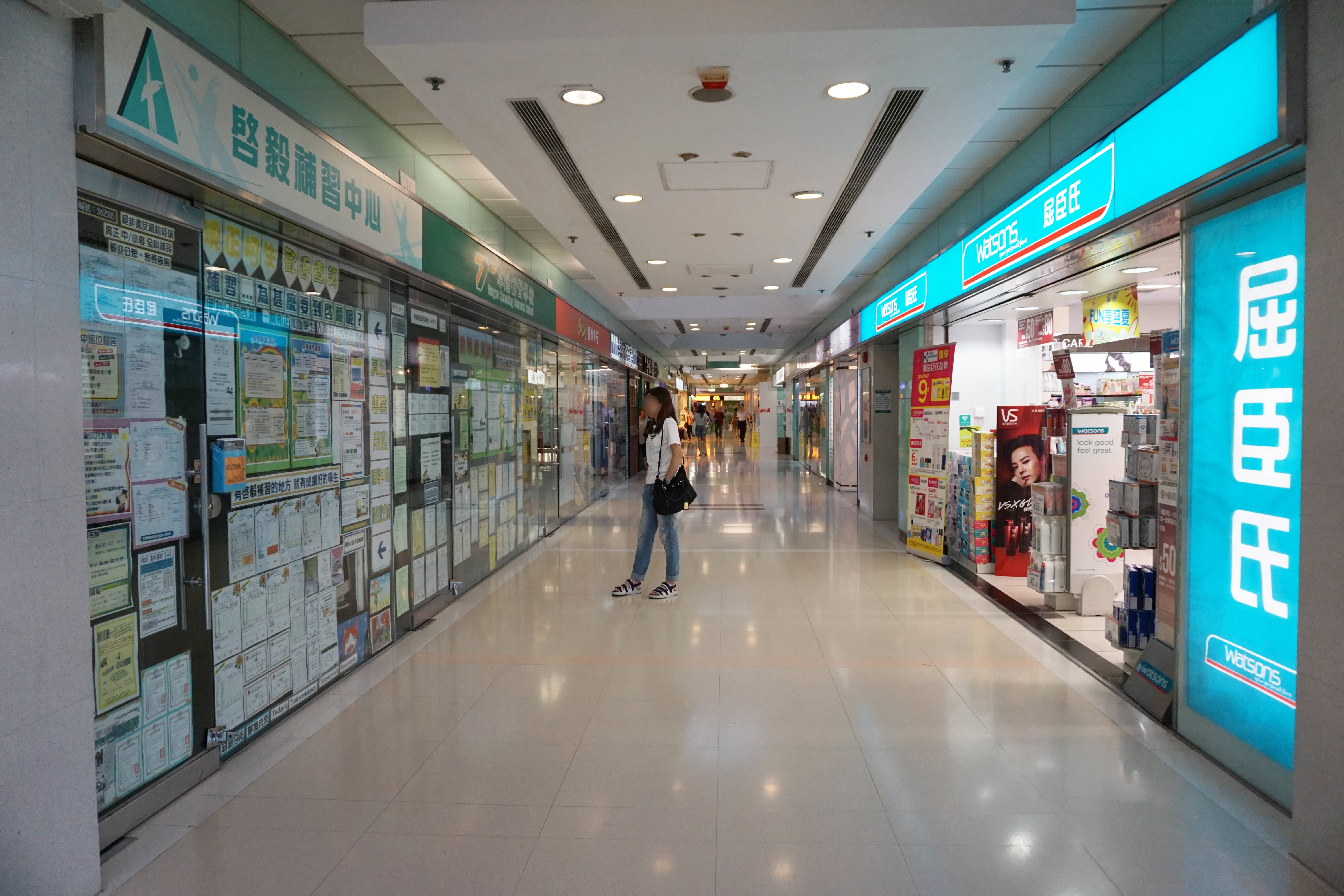 Lei Muk Shue Shopping Centre in Wo Yi Hop, Hong Kong.